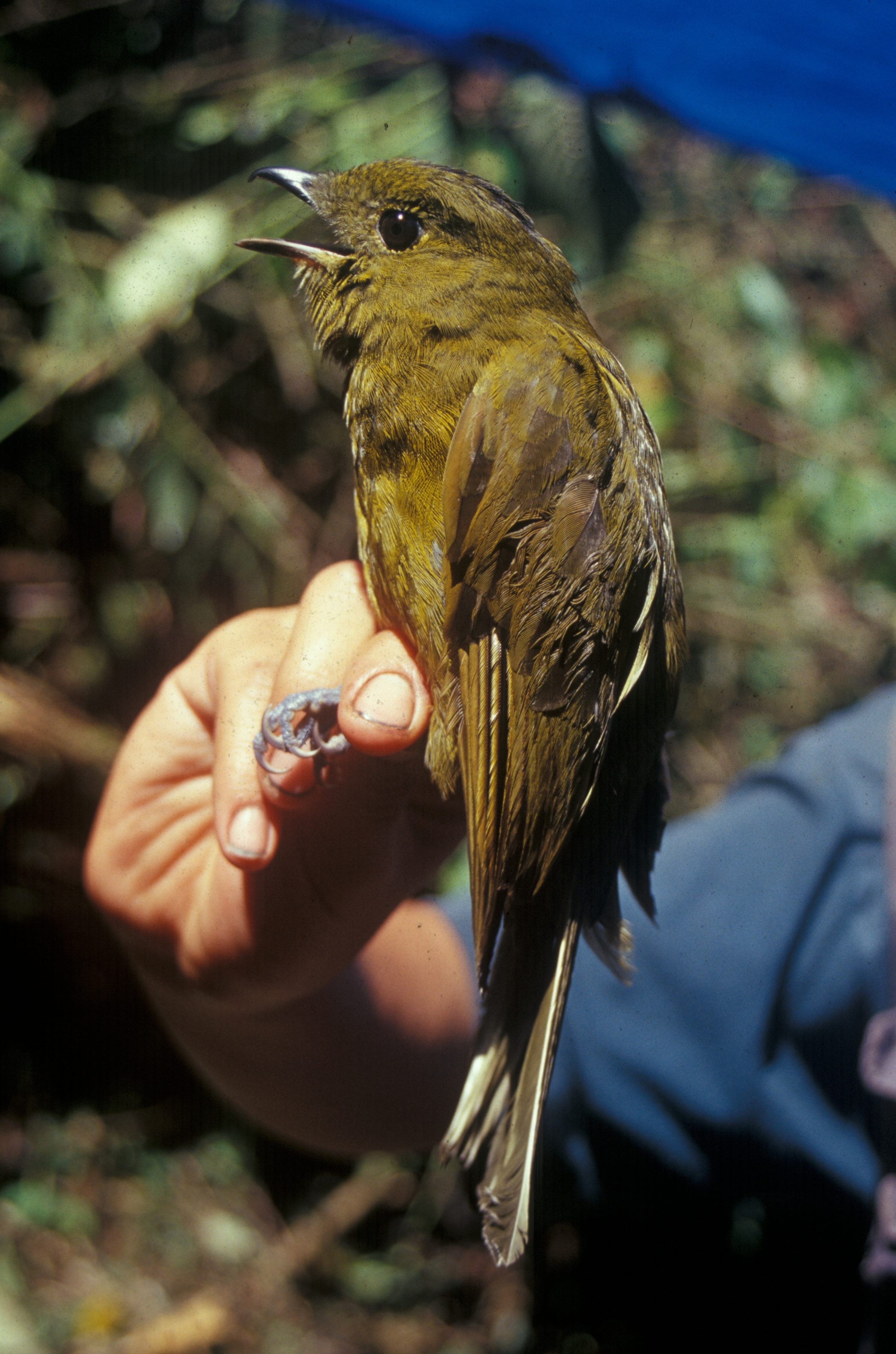 Olivaceous Piha (Snowornis cryptolophus) from Ecuador